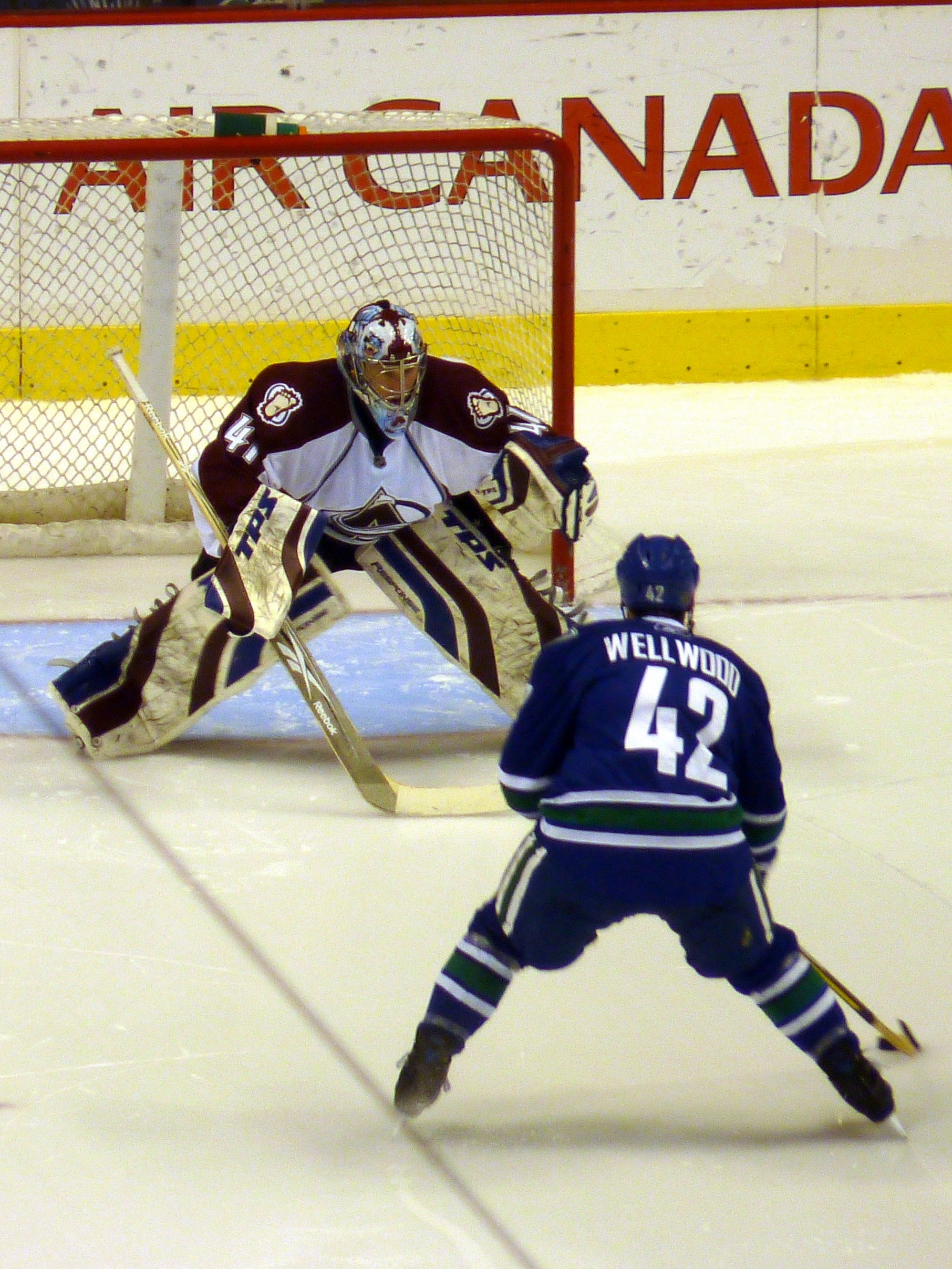 Kyle Wellwood shoots on Craig Anderson during a shootout in April 2010.